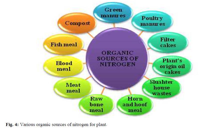 Various organic sources of nitrogen for plant